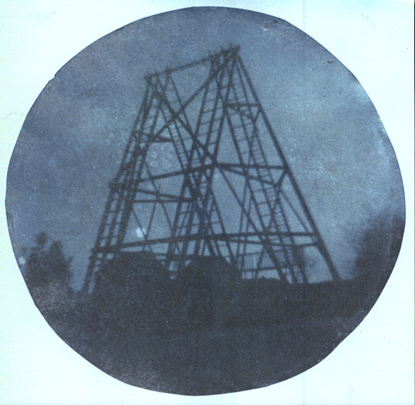 the very first photograph to be taken on glass. It was taken by Sir John Herschel in 1839, and shows his father's telescope in Slough, near London. (Science Museum, London). Computer-generated positive of Herschel's negative image of the telescope at Slough.